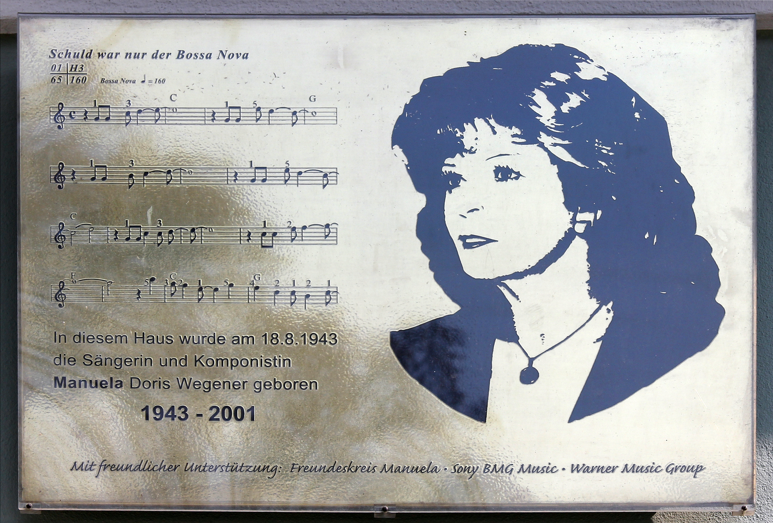 Memorial plaque, Manuela, Thurneysserstraße 3, Berlin-Gesundbrunnen, Germany